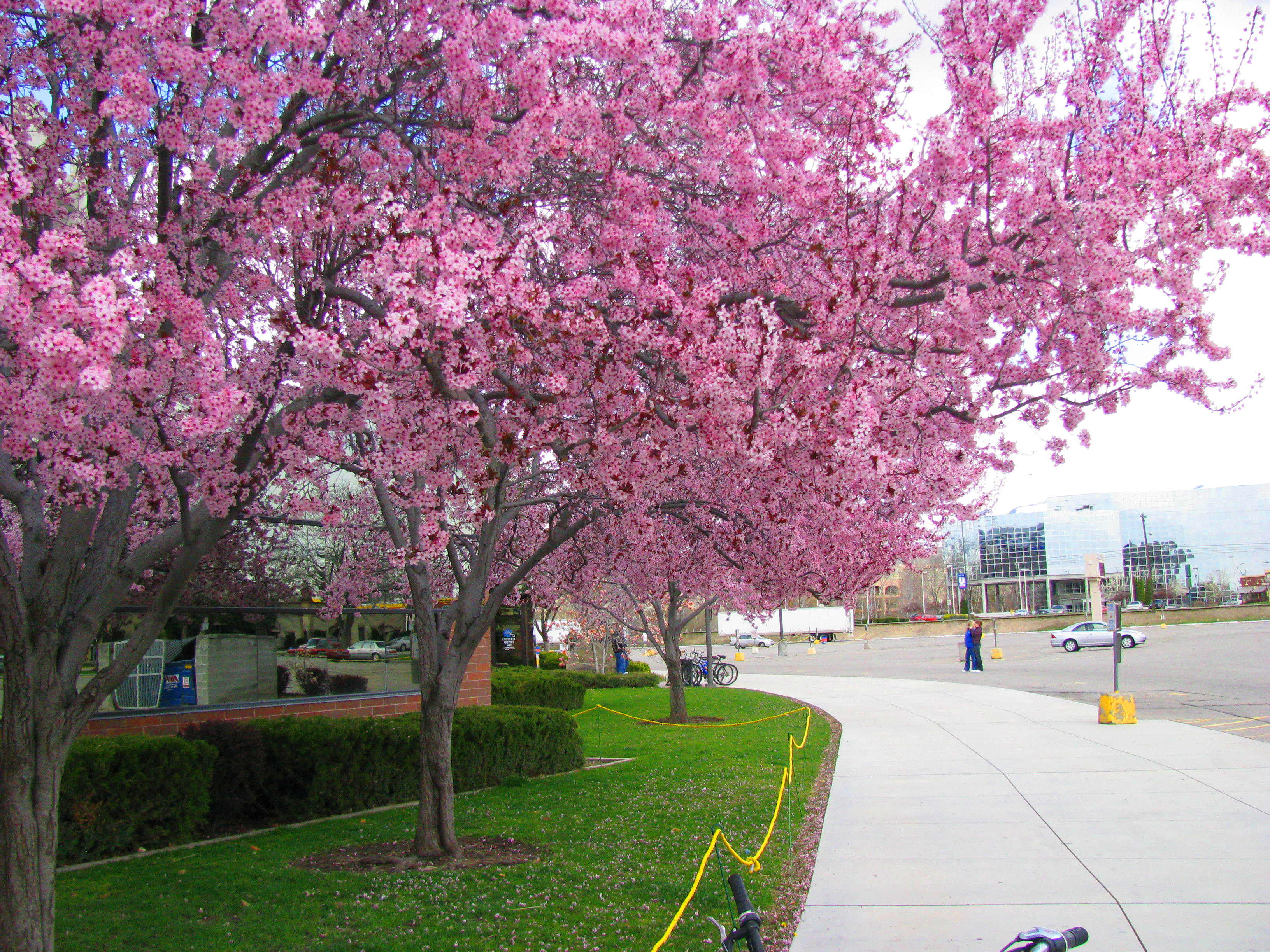 Spring Blossom in front of Broncos Stadium